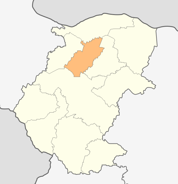 Map of Medkovets municipality, Montana Province